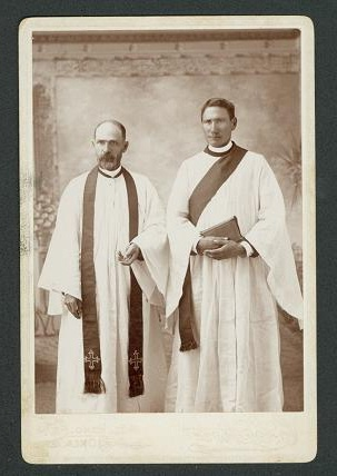 Image of David Pendleton Oakerhater, a Cheyenne Indian, who became an Episcopal deacon and missionary. This is from the period of his service at the Whirlwind Mission near Fay Oklahoma, where he served from 1887 to 1918